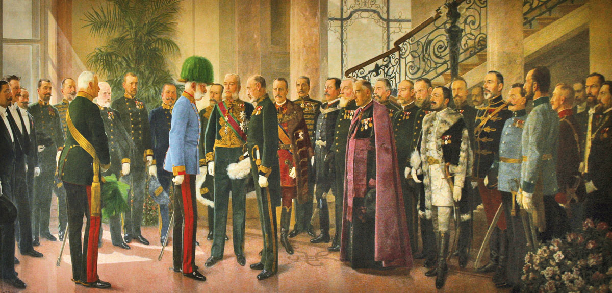 On 18 April 1904 Emperor Franz Joseph visits the recently completed Household, Court and State Archives (Centre: the Emperor with a green feathered hat; opposite him: Archive Curator Gustav Winter; between them the Foreign Minister Count Goluchowski), Detail of a mural in the staircase of the Household, Court and State Archives by Karl J. Peyfuss (completed in 1908) (© Austrian State Archives)